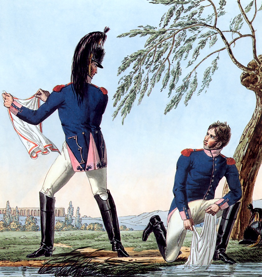 Part of a series chronicling the uniforms of Napoleon's Grande Armée.